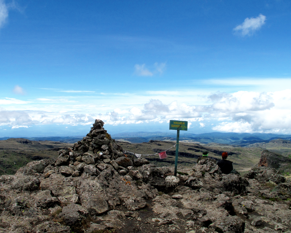 Wagagai, the highest peak of Mount Elgon, Uganda